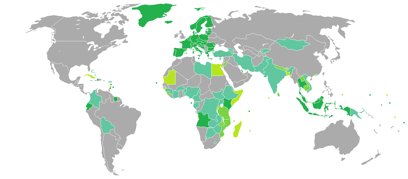 Visa requirements for East Timorese citizens East Timor Visa free Visa issued upon arrival eVisa Visa available both on arrival or online Visa required